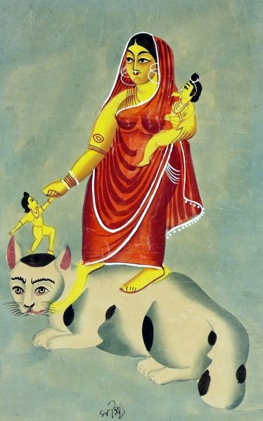 Shashthi